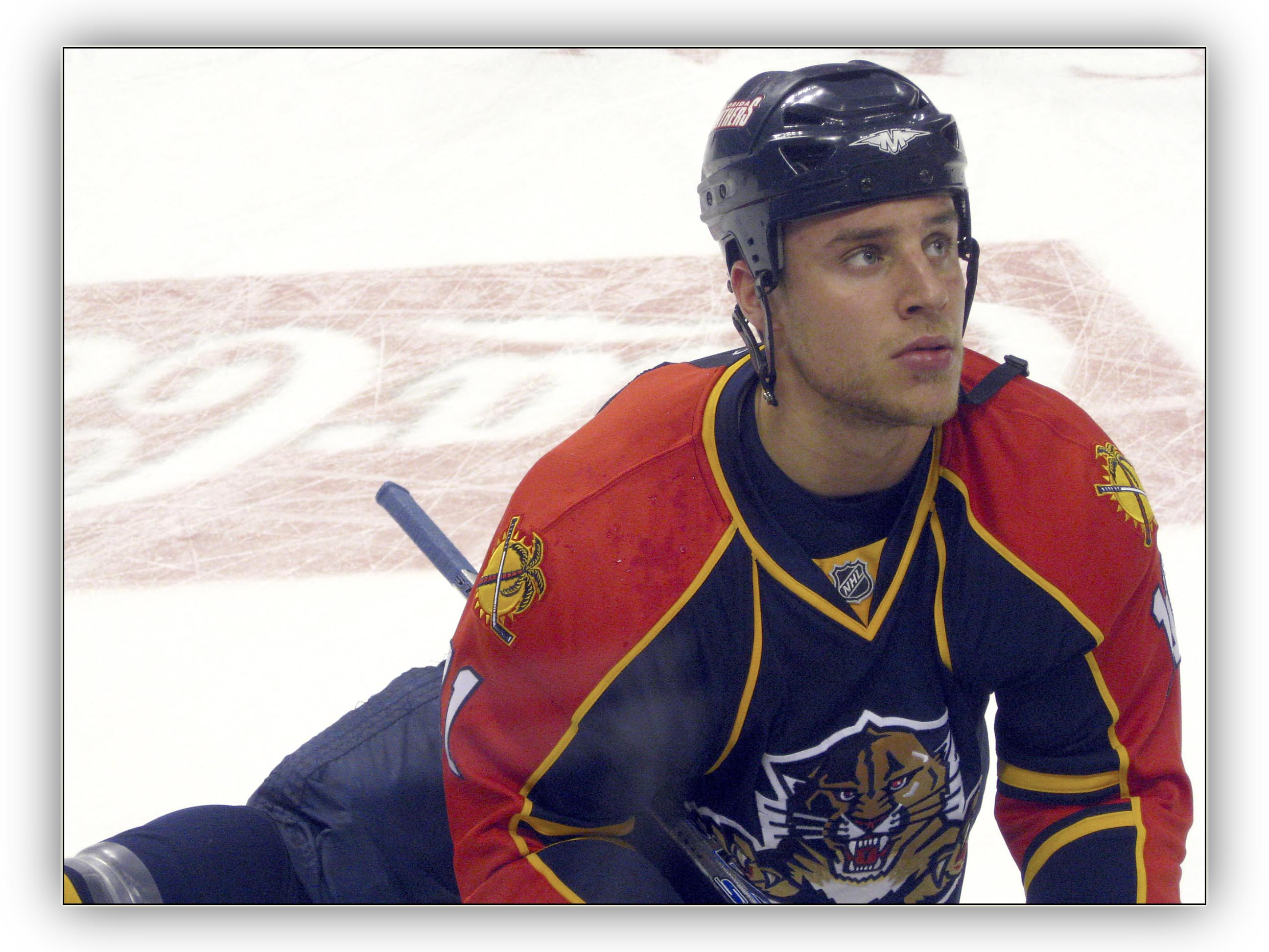 Gregory Campbell of the Florida Panthers warming up before a game on November 15, 2007.